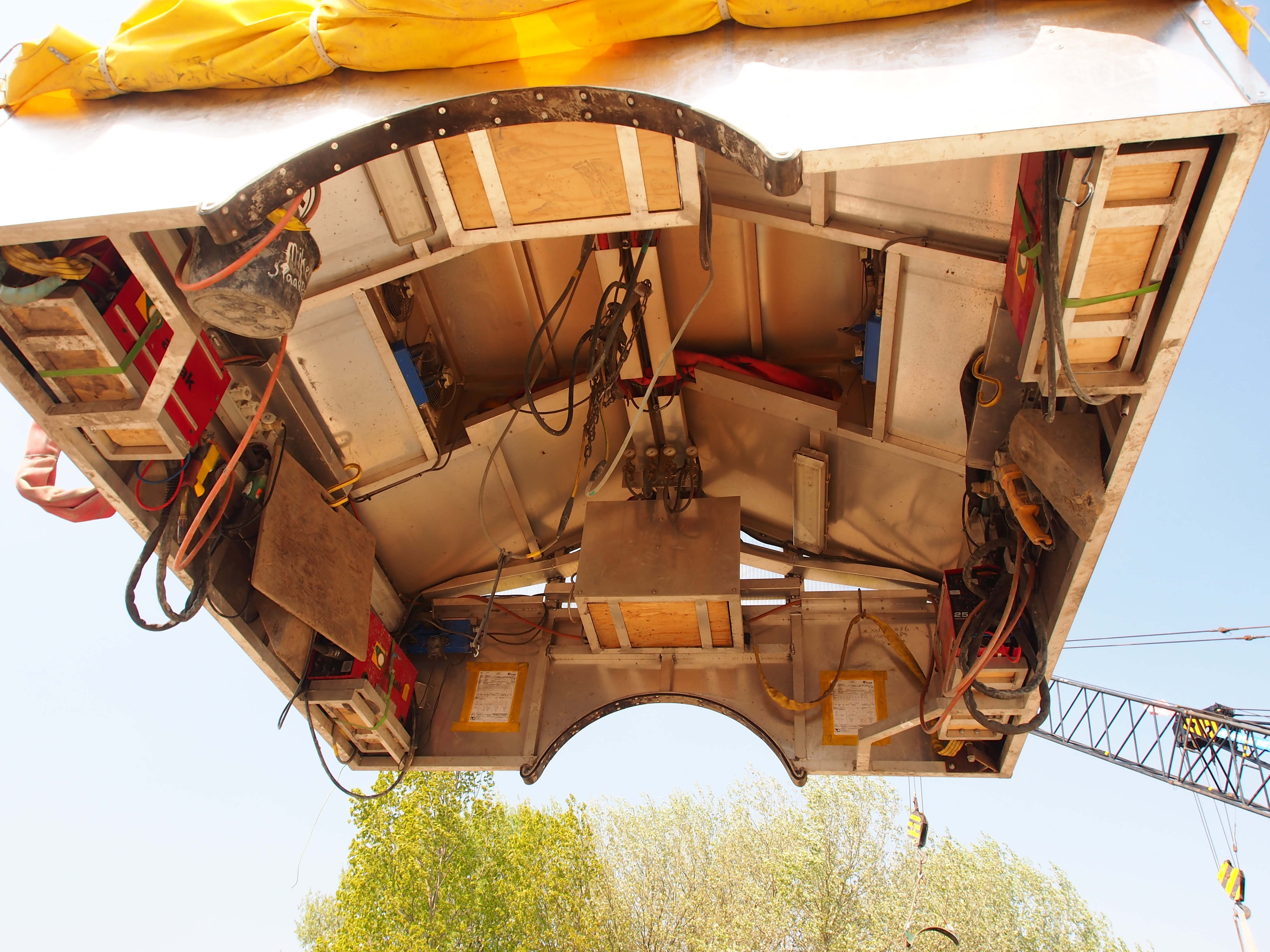 Photographed at Hoofddorp in The Netherlands.